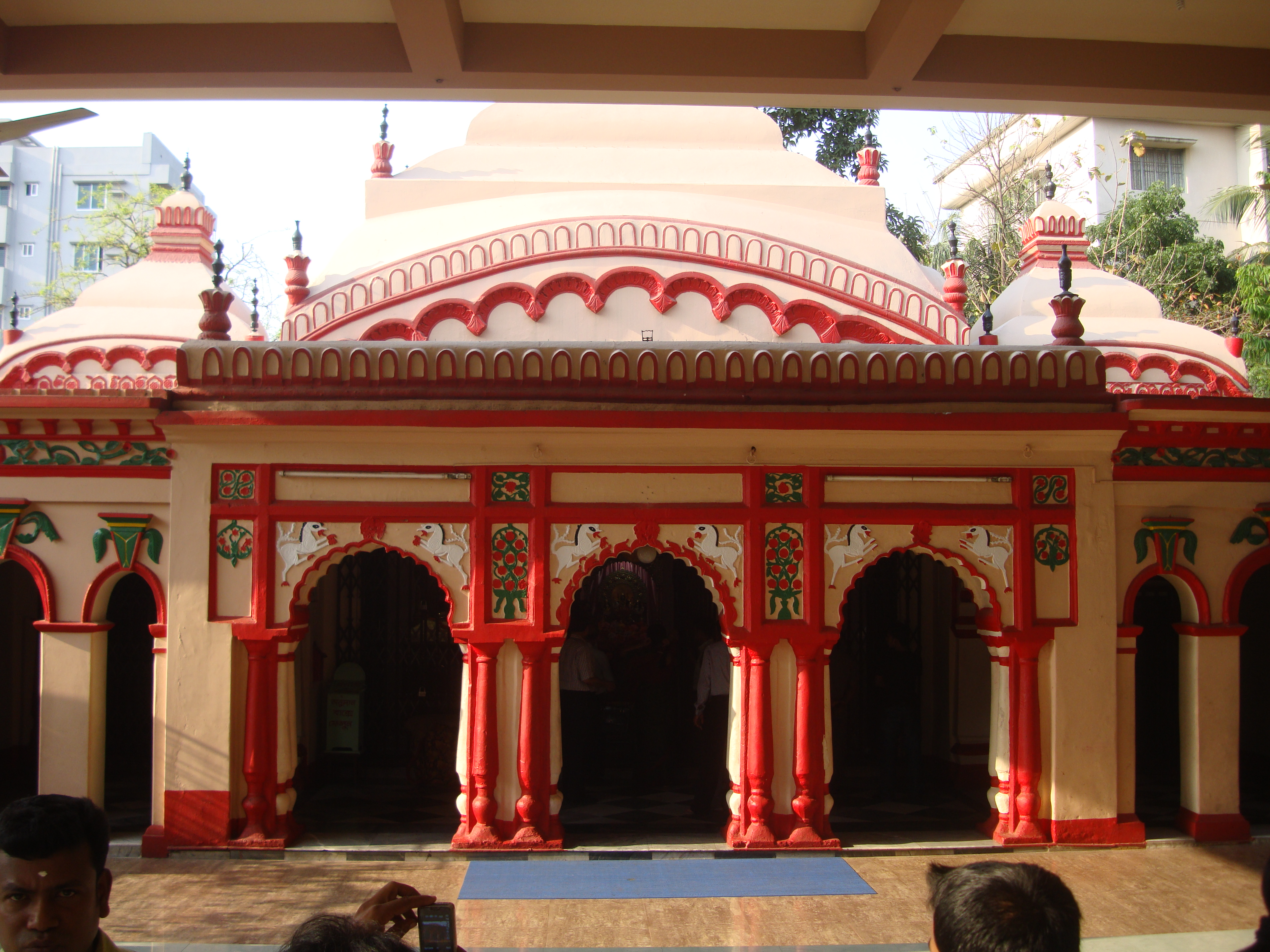 The statu of Deity Durga is placed here